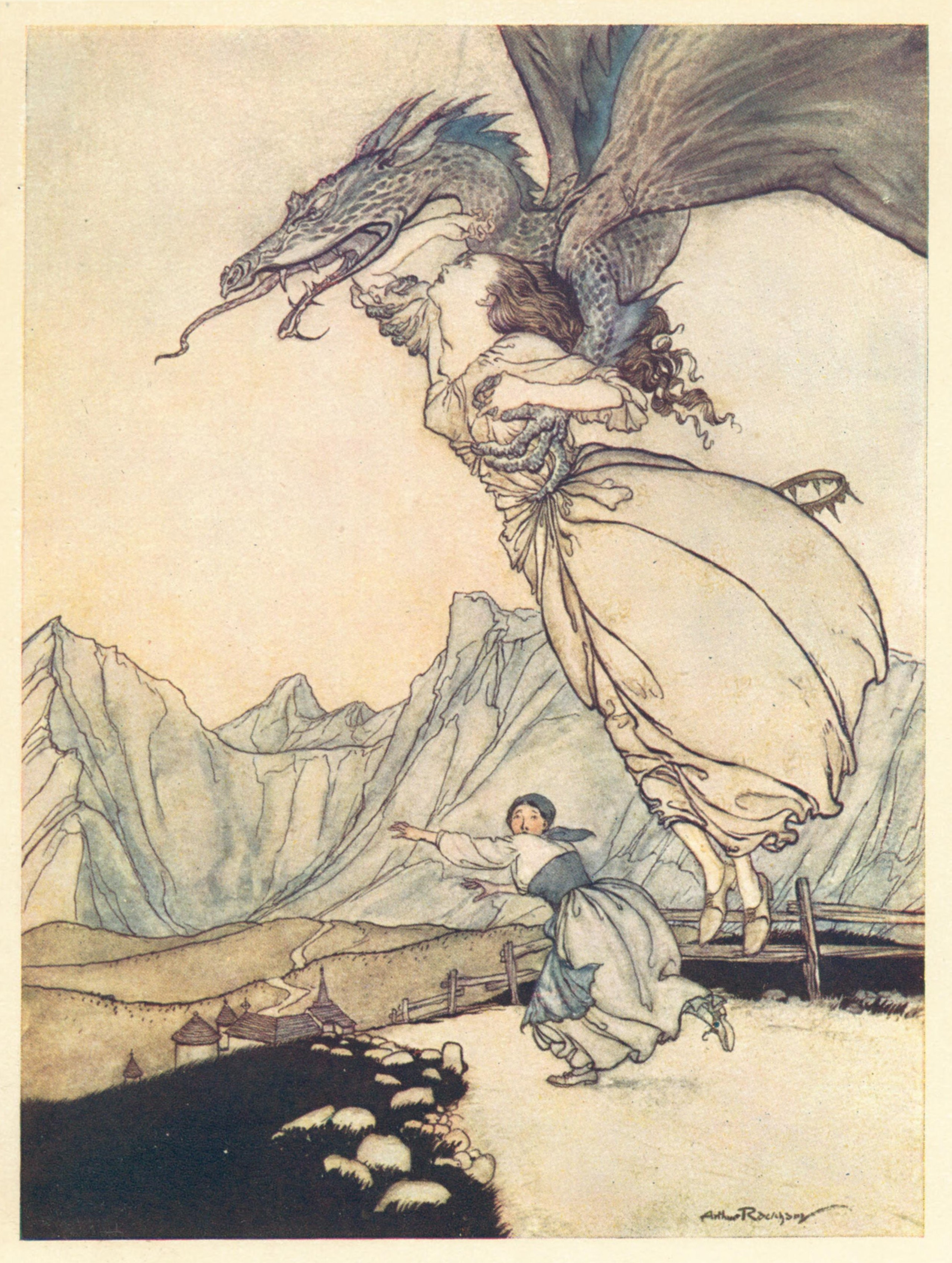 "The dragon flew out and caught the queen on the road and carried her away". From the Serbian fairy tale of "The Nine Peahens and the Golden Apples" in The Allies Fairy Book from 1916 (link to page), illustrated by Arthur Rackham.